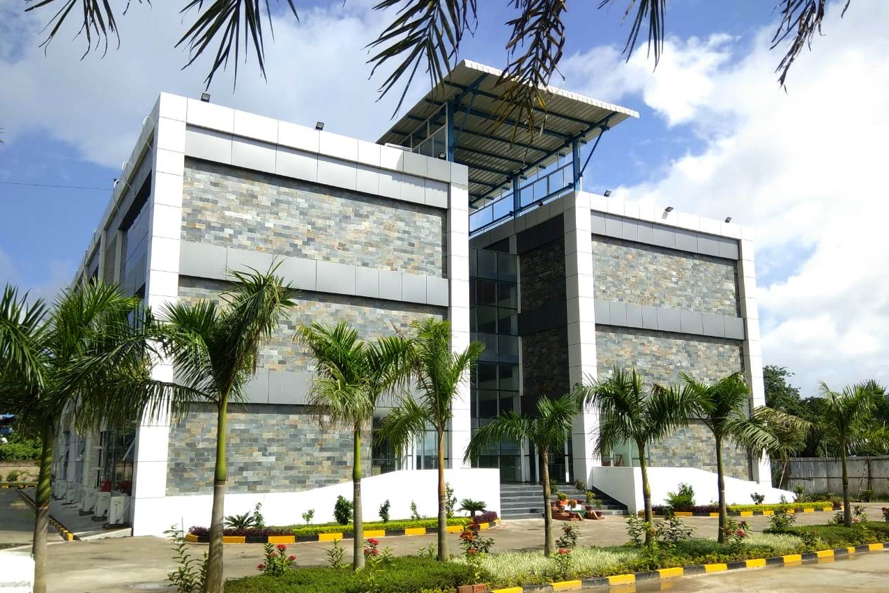 ISB&M Kolkata Campus Photo